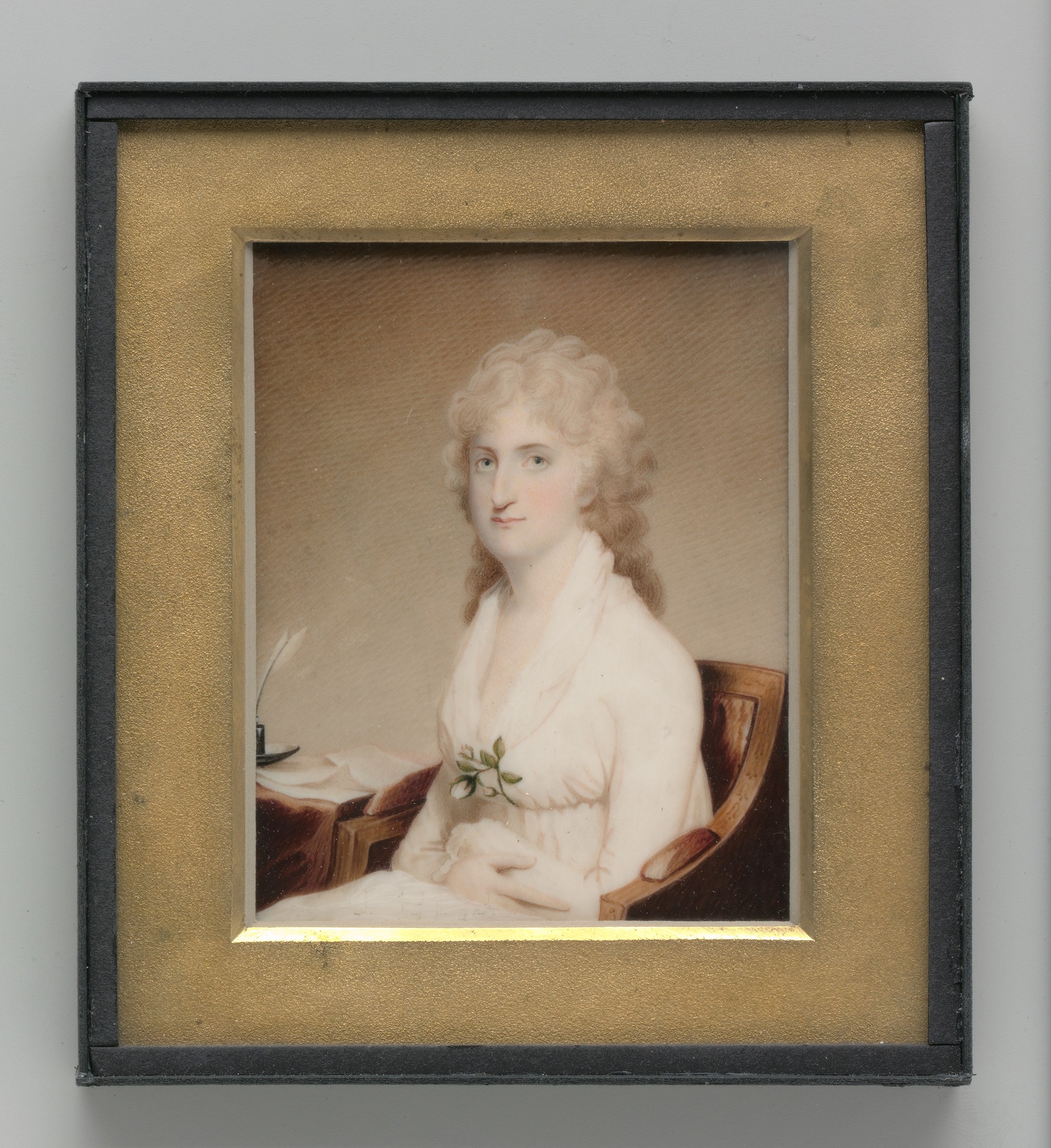 Mrs. Richard Peters (Abigail Willing) Date:ca. 1803 Medium:Watercolor on ivory Dimensions:3 3/4 x 2 7/8 in. (9.5 x 7.3 cm) Classification:Paintings Credit Line:Gift of J. William Middendorf II, 1968 Robertson was a leading miniaturist in Dublin before coming to New York in 1793 with the American portraitist Gilbert Stuart, who had been working in Dublin for several years. They made a plan that Robertson would paint copies of Stuart's portraits in America, an agreement that may have held for at least a few years, although very few examples of their work together are extant. They remained in New York for about a year and a half and then went to Philadelphia. Robertson painted this miniature of Abigail Willing Peters (1777–1841), daughter of the prominent Philadelphian Thomas Willing, based on Stuart's portrait of her (Pennsylvania Academy of the Fine Arts, Philadelphia).